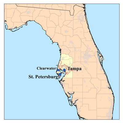 This is a map of the Tampa Bay Area I made using U.S. Census Bureau data. The Metropolitan Statistical Area is shown in yellow. The light gray shading indicates urbanized areas with the Tampa Bay area as defined by urbanized areas outlined.